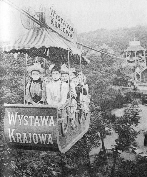 Cable way at the 1894 Lviv Exhibition